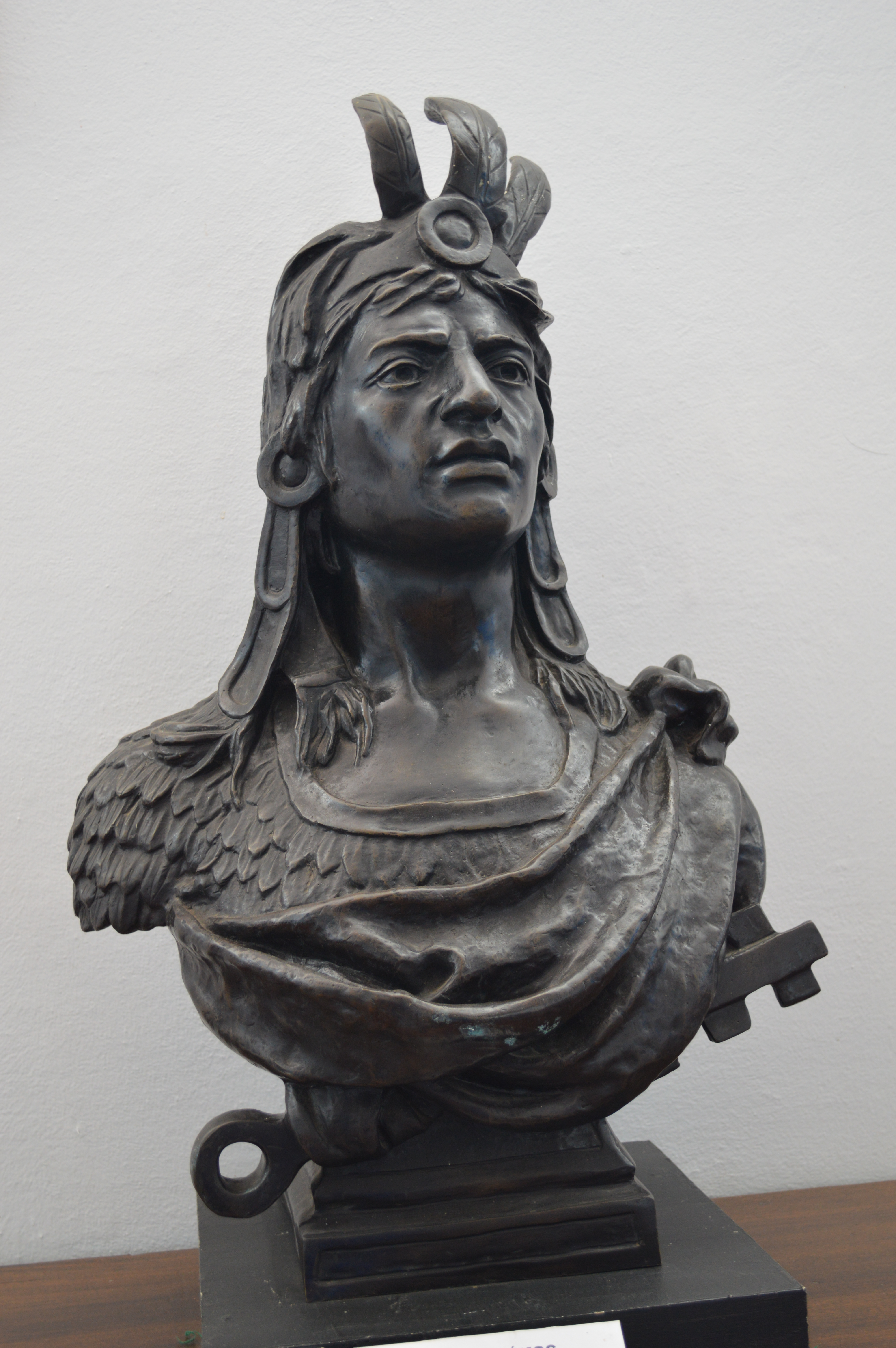 Bust of Cuauhtemoc by Jesus F Contreras (1866-1902) at the Museo Regional Tuxtepec in Santiago Tuxtla, Veracruz, Mexico